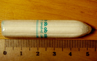 Tampon sold without applicator (digital tampon). (The ruler shown is in cm)